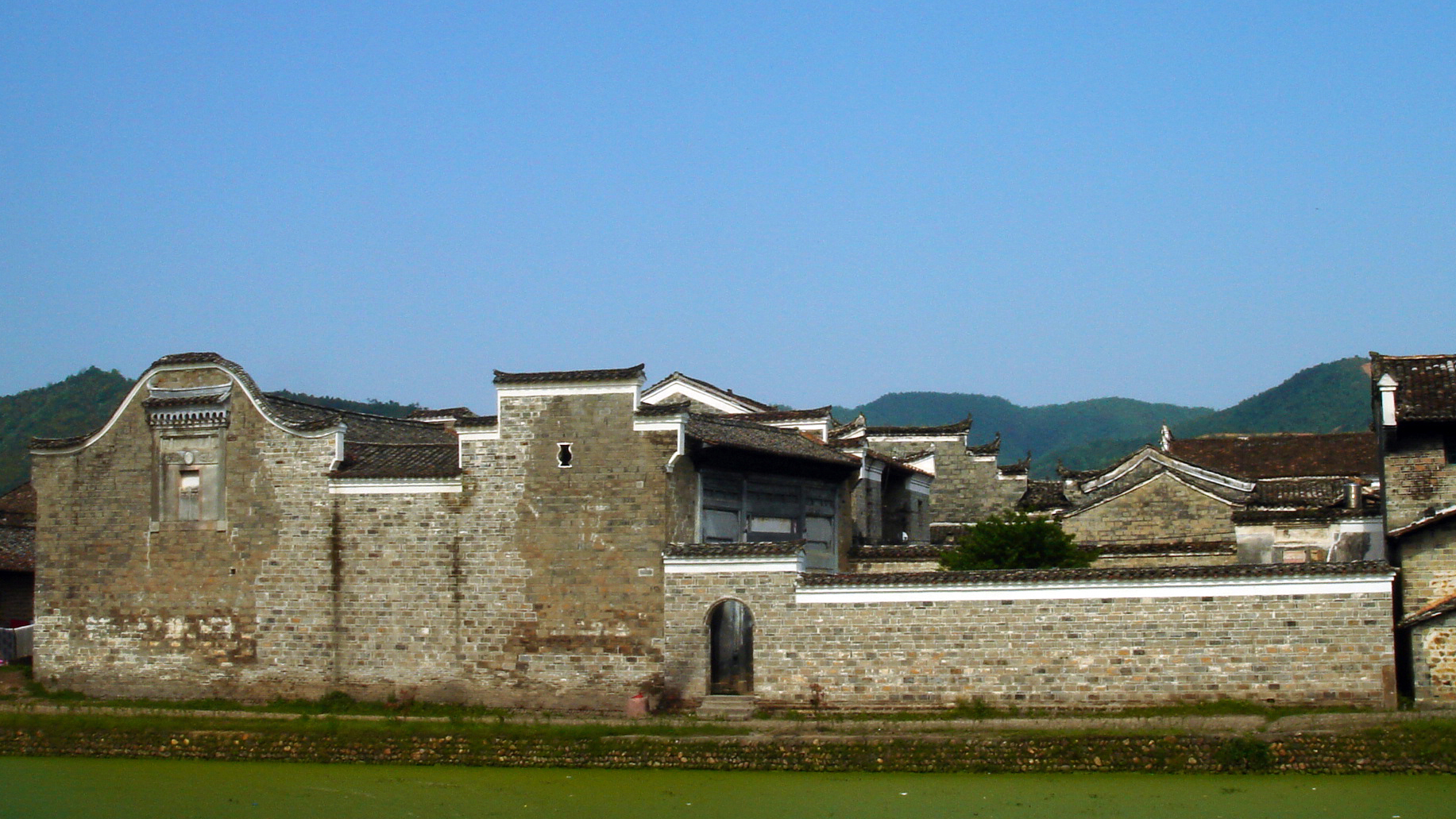 Jiangxi's indigenous architecture - Liukeng village